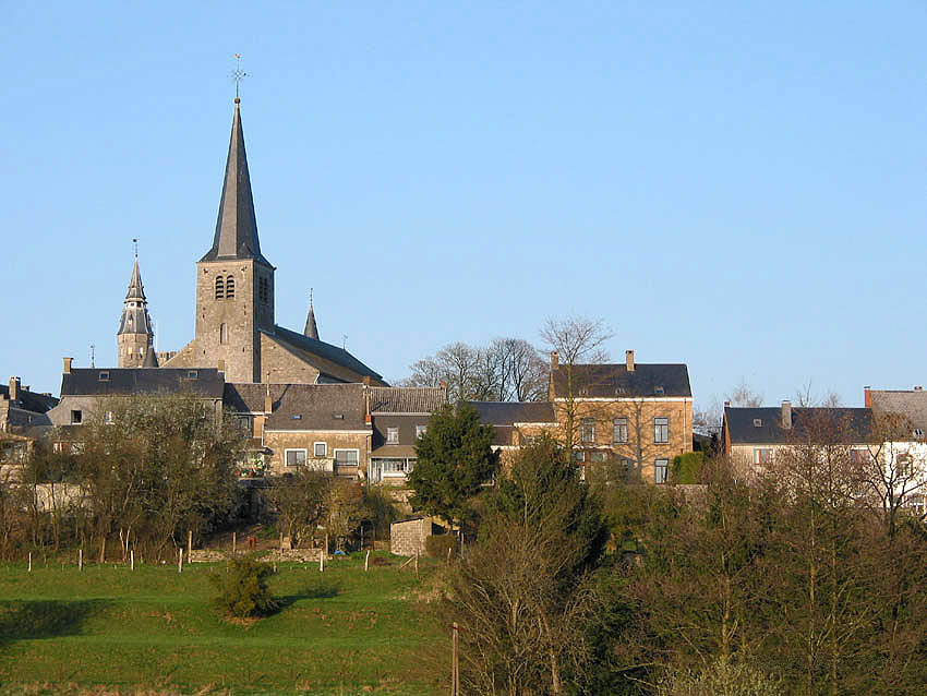 Leignon (Belgium), the neighborhood of the church of the Assumption of the Blessed Virgin (1845).